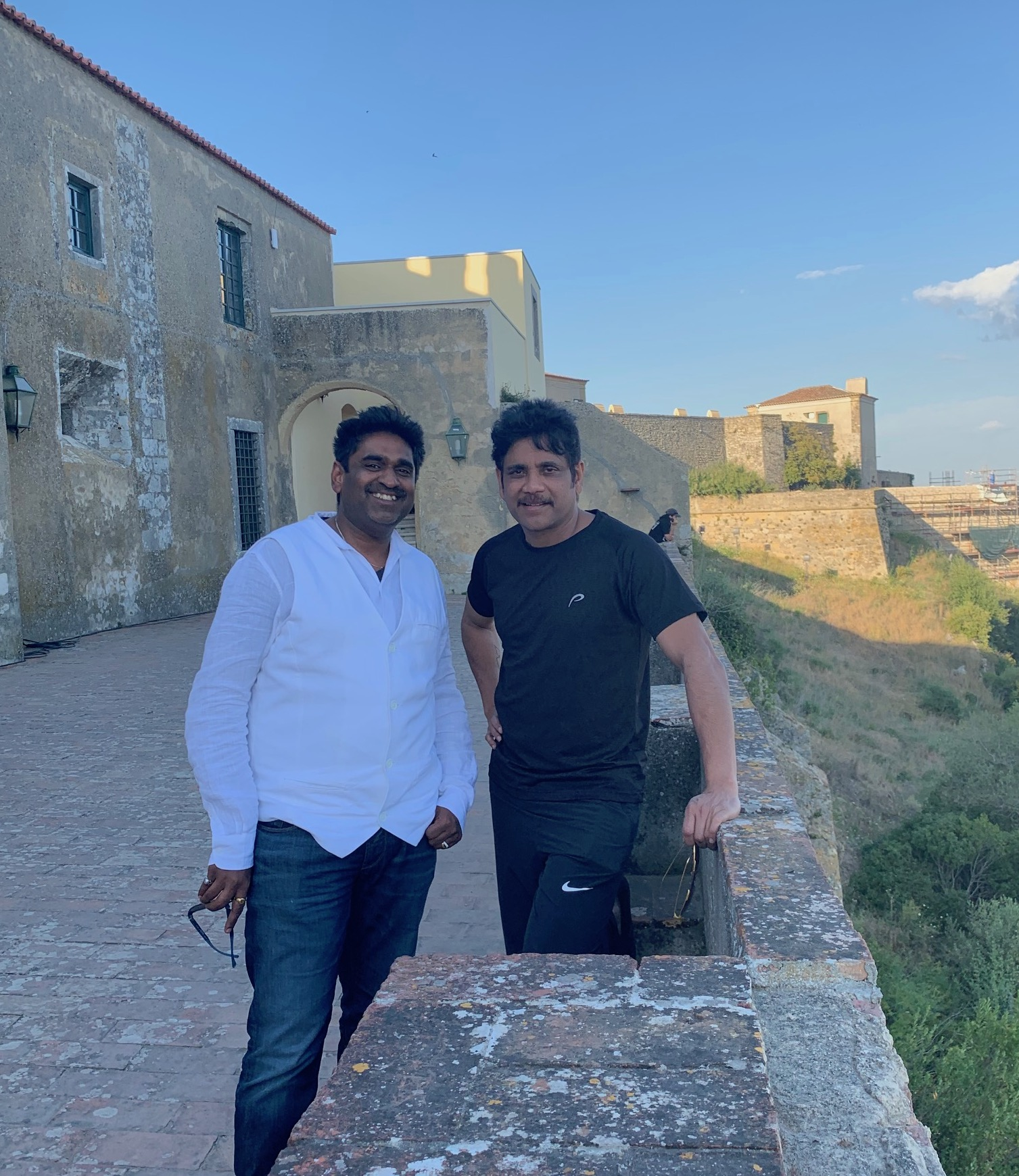 JP with Akkineni Nagarjuna